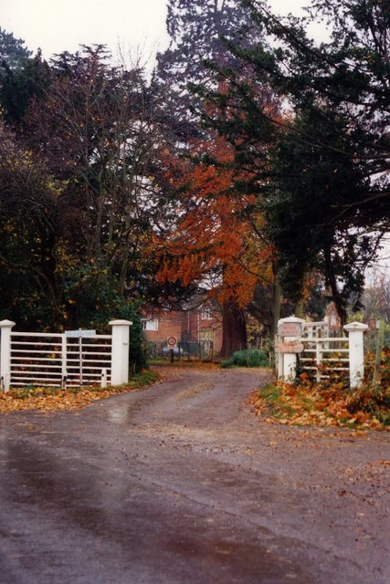 Loddon School, Widmoor Lane, Sherfield-on-Loddon.